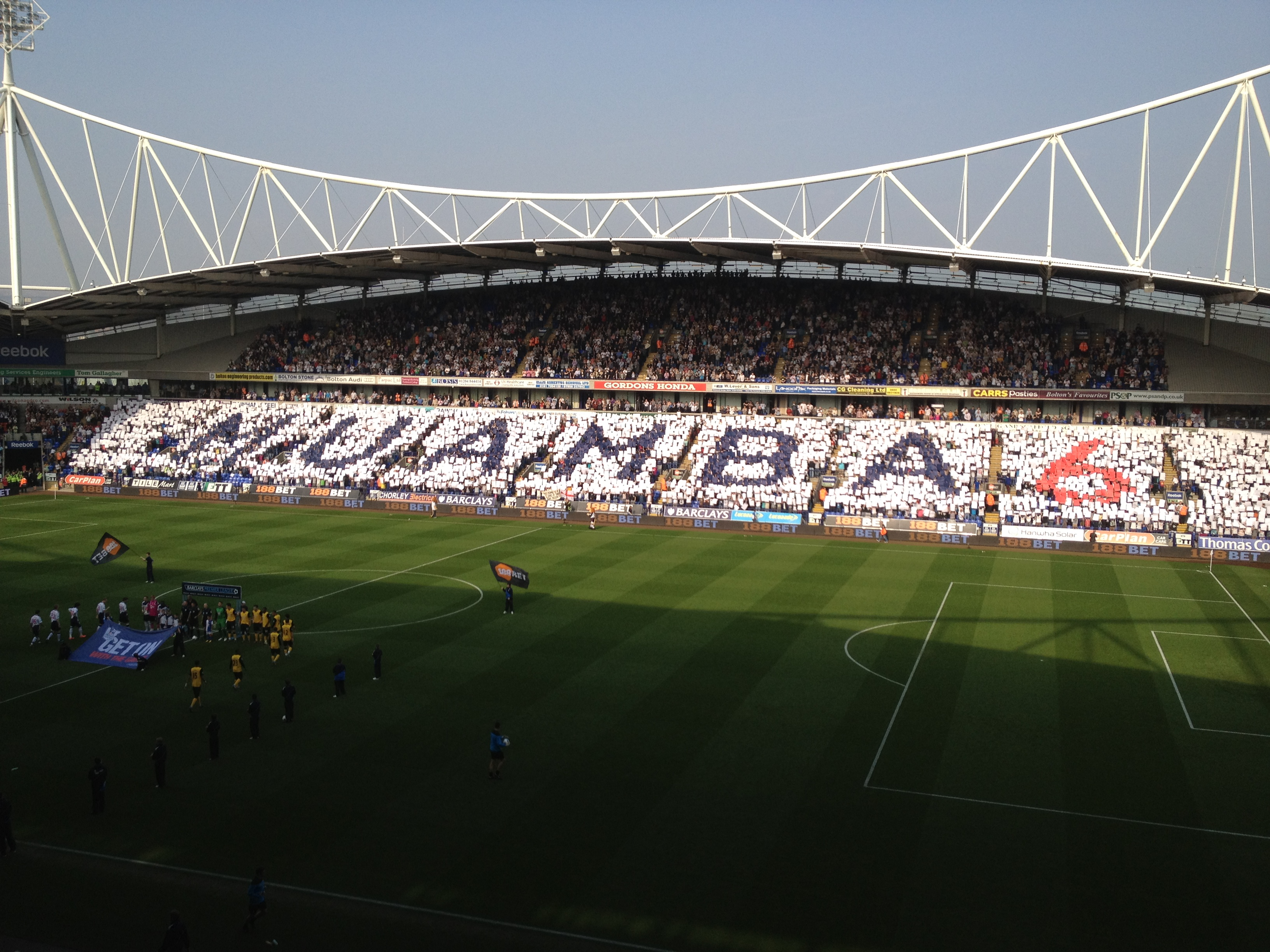 BWFC show of support for Fabrice Muamba vs Blackburn Rovers on 24th March 2012. Fans from the Nat Lofthouse stand hold up coloured cards to spell out the slogan "Muamba 6"